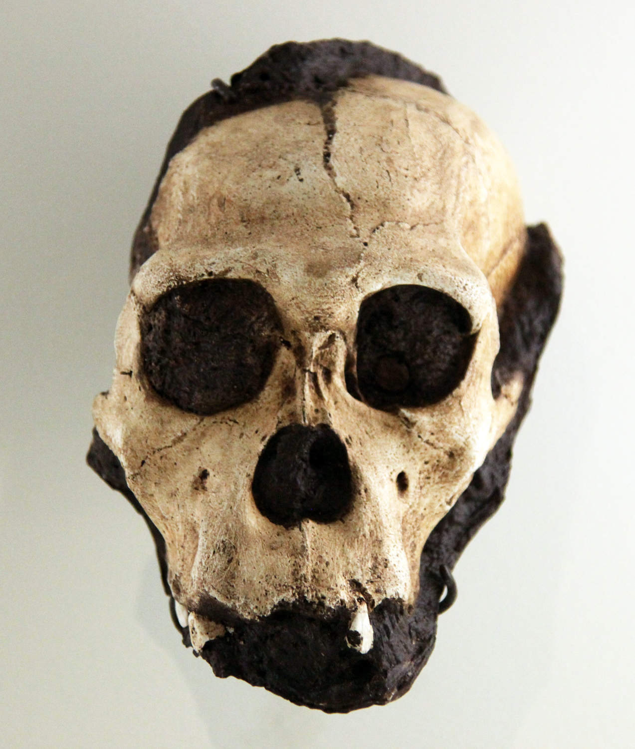 Cast of the skull of a juvenile Australopithecus sediba on display in the Hall of Human Origins in the Smithsonian Museum of Natural History in Washington, D.C. Australopithecus sediba was discovered on August 15, 2008, by nine year old Matthew Berger on the Malapa Nature Reserve in South Africa. The name Australopithecus means "southern ape", while the name sediba means "spring" in the language of the Sotho people. Australopithecus sediba lived about 2 million years ago. It had a modern-like hand, and a pelvis more suited to walking that its upright ape-like ancestors. It had a brain about one-third the size of modern humans, and may have created simple tools.